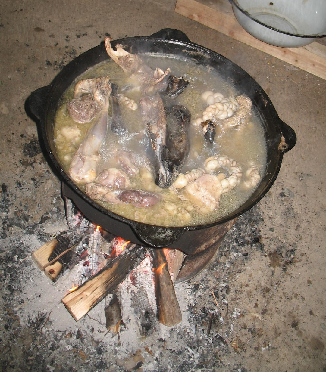 Sheep shorpo cooking in Kazan in Aq-örgöö, Chüy, Kyrgyzstan. Кыргызча: Ак-өргөөдө (Чүйдө) бышып жаткан кой шорпосу.